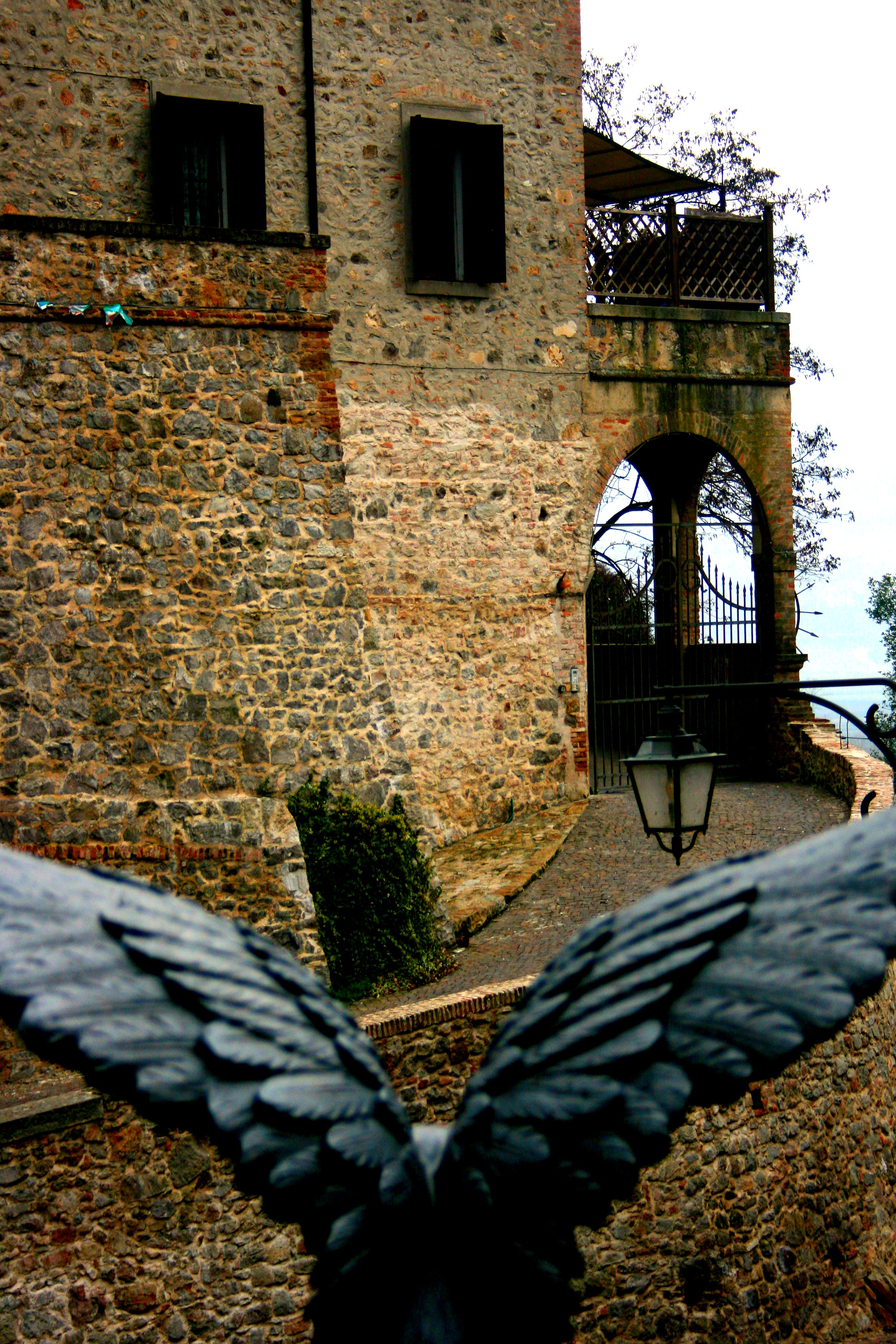 A view of the rear entrance of St Mary´s church in Arquà